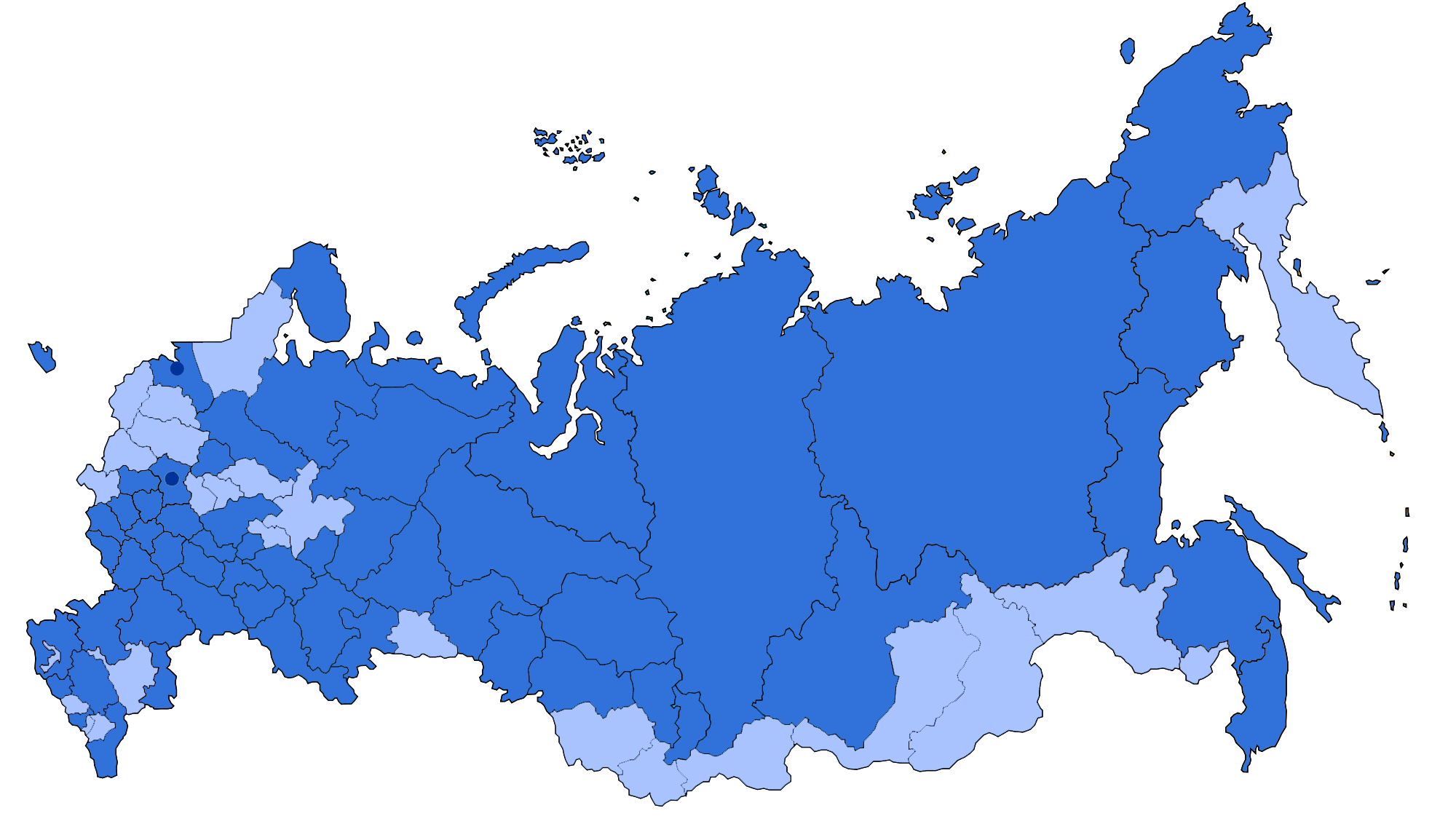 Russian regions by HDI 2009